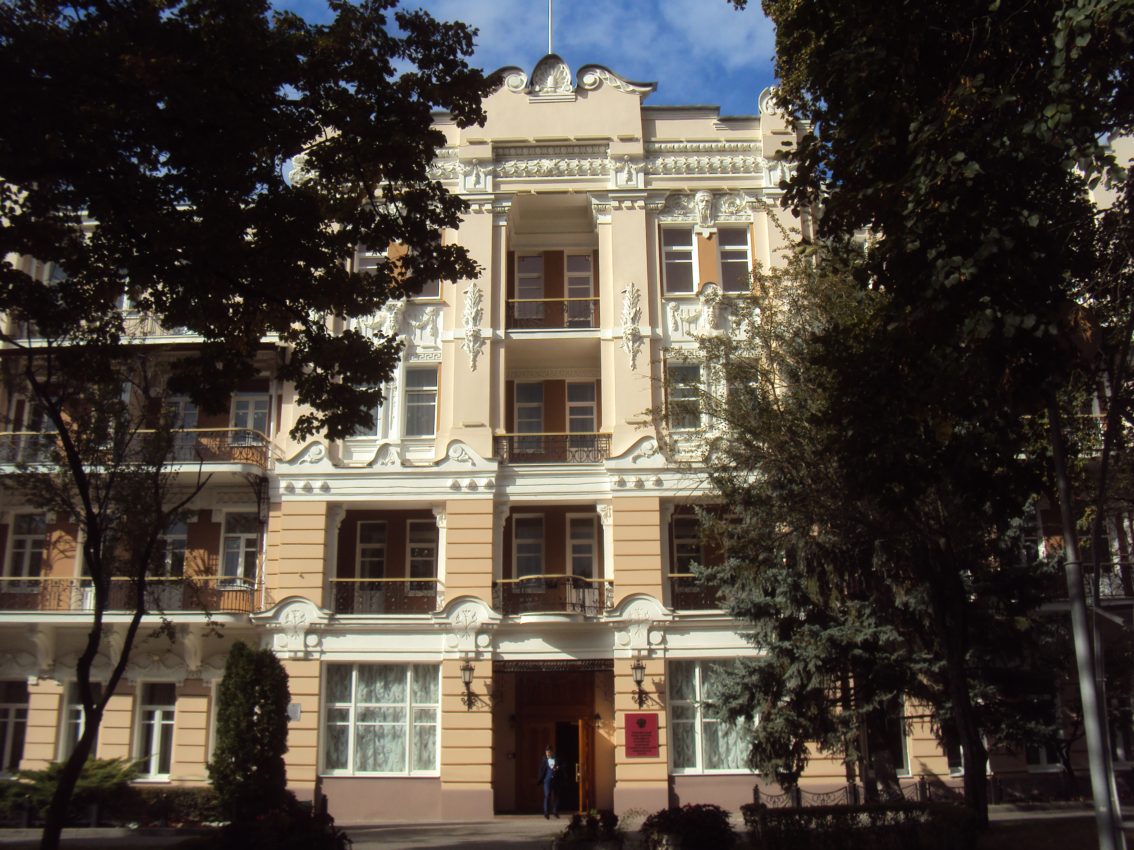 Hotel Bristol